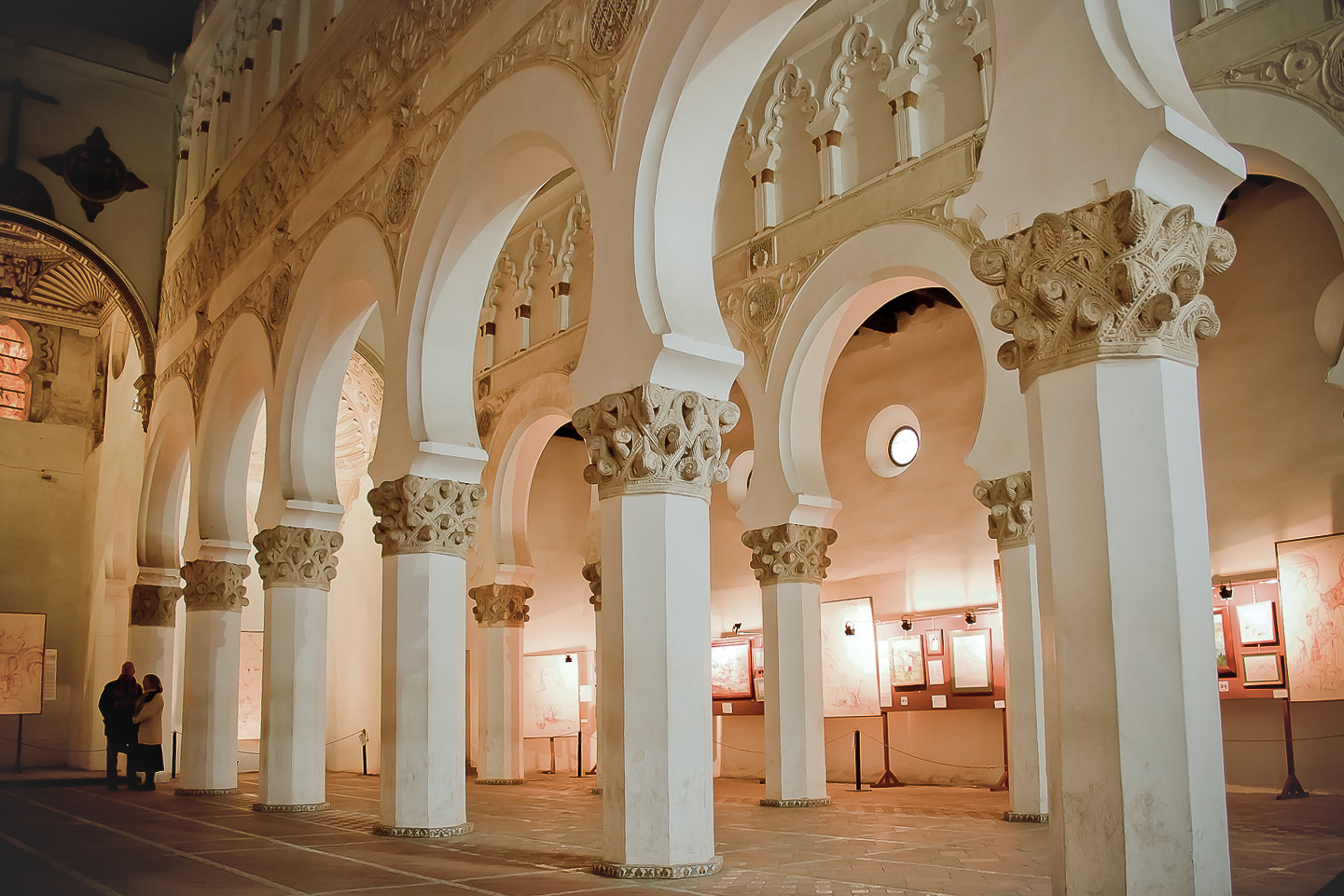 Straighten and color correct.